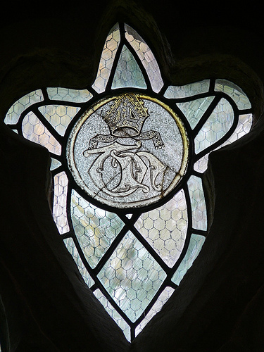 Stained glass window c1500 showing the monogrammed initials of Thomas Newbold Abbot of Evesham Abbey 1491-1514. St Mary church Badby Northamptonshire.